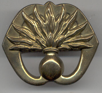 Baret Badge Dutch Garde Grenadiers 1e issue 1947